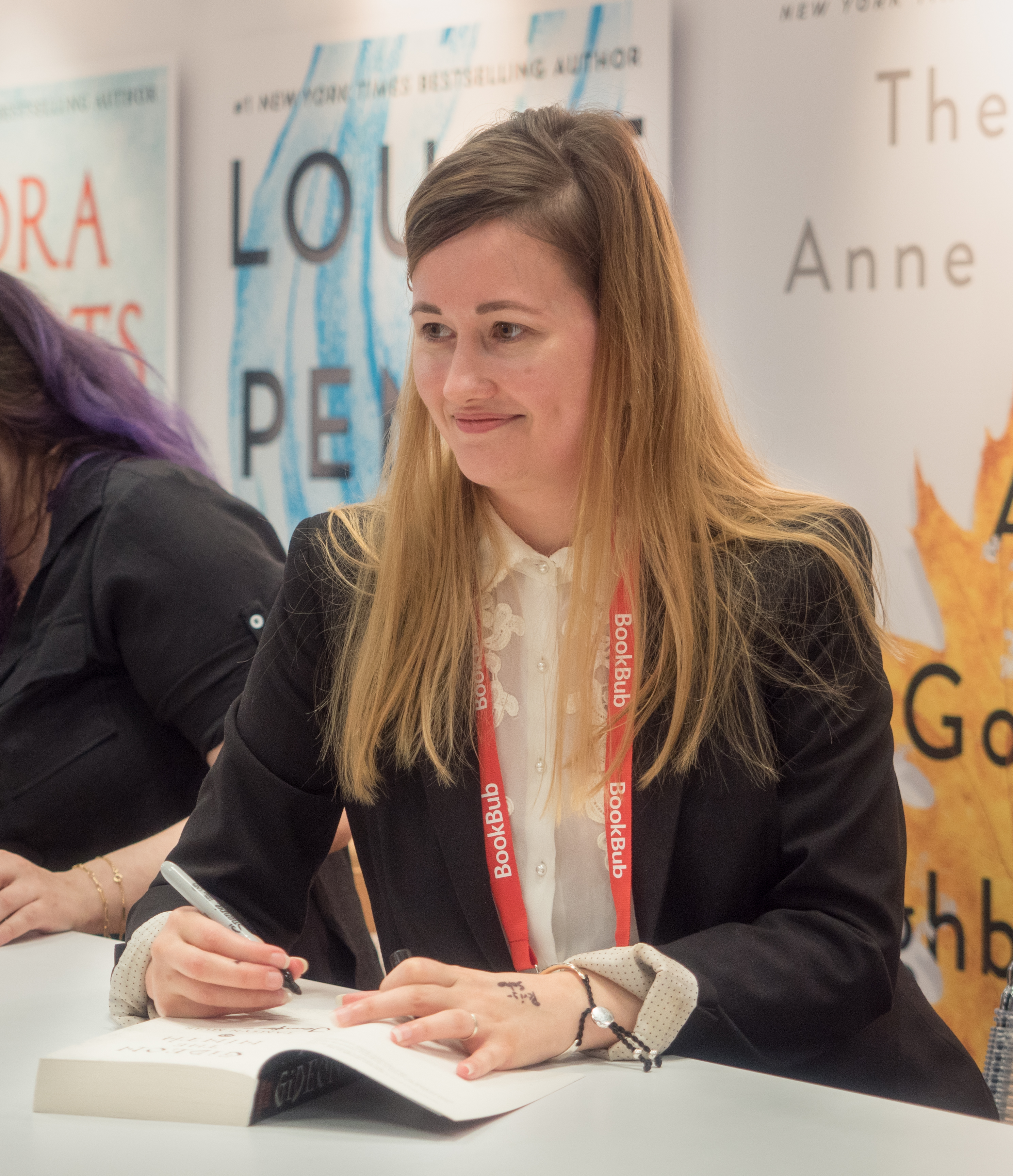 Tamsyn Muir at BookExpo